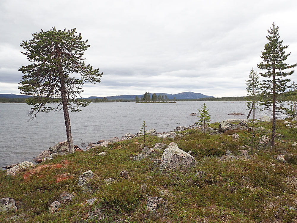 Lake Tjäktjajávrre (former ortography Tjäktjaure) viewed from the eastern side, near the old wooden hut.